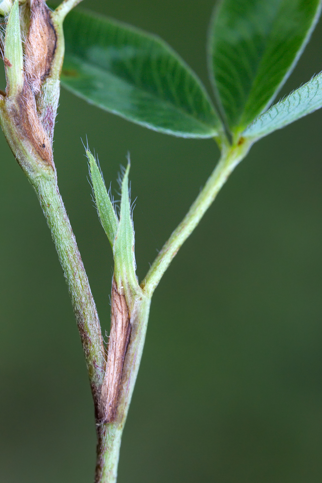 Detail of Zigzag Clover (Trifolium medium). Note the lanceolate shaped stipules with a free part as long as the grown-together part (different to T. pratense).